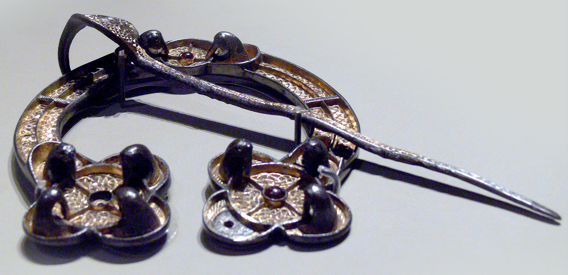 The Rogart brooch, National Museums of Scotland, FC2. Pictish penannular brooch, Scotland, 8th century, silver with gilding and glass. photographed at Expo: Celts and Scandinavians, artistic encounters, 7th-12th century, 1st October 2008 - January 12, 2009, Musée National du Moyen Âge - Thermes et hôtel de Cluny, Paris.